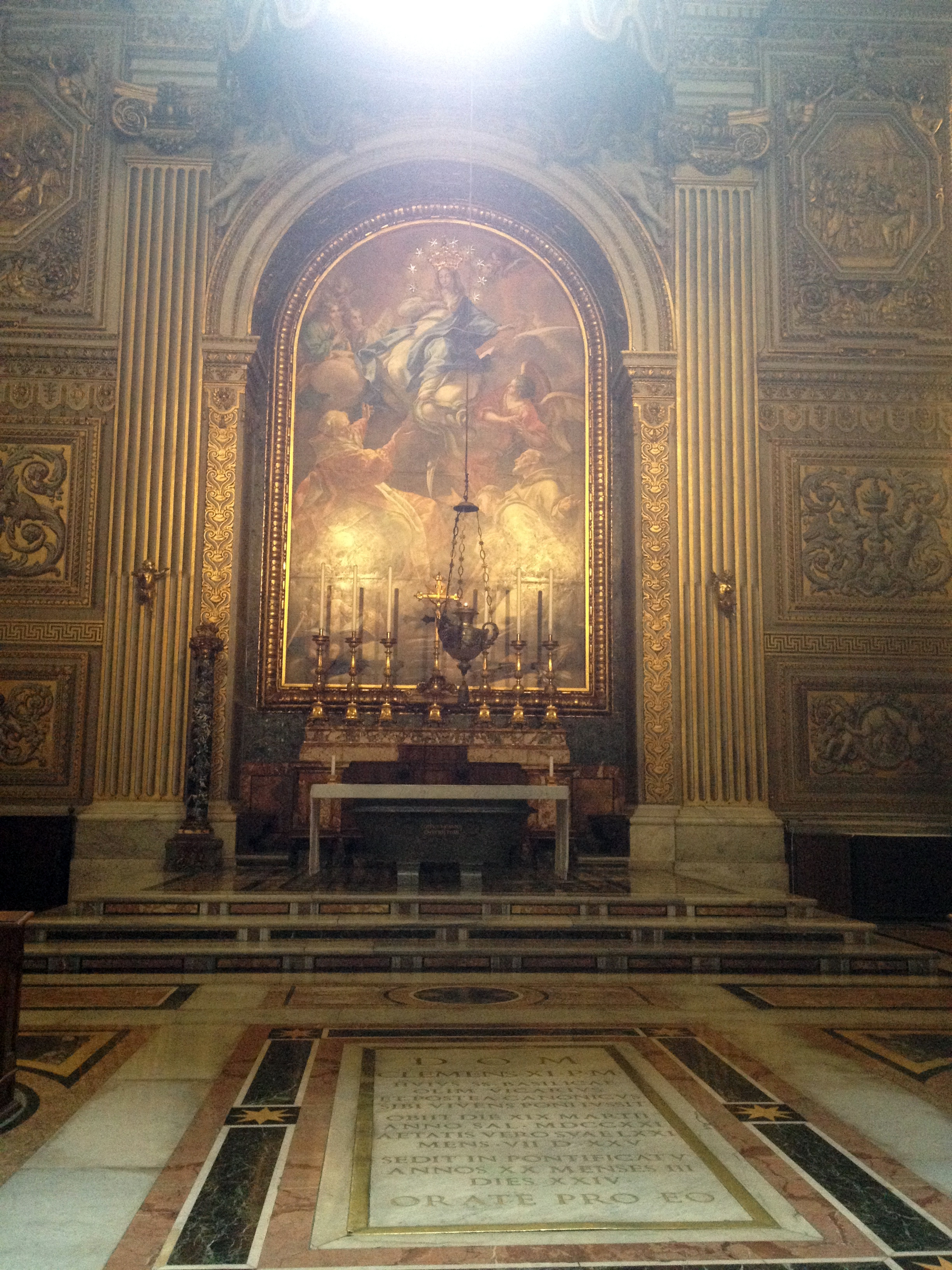 Clement XI was pope between 1700-1721. His interest in archaeology is credited with saving much of Rome's antiquity.